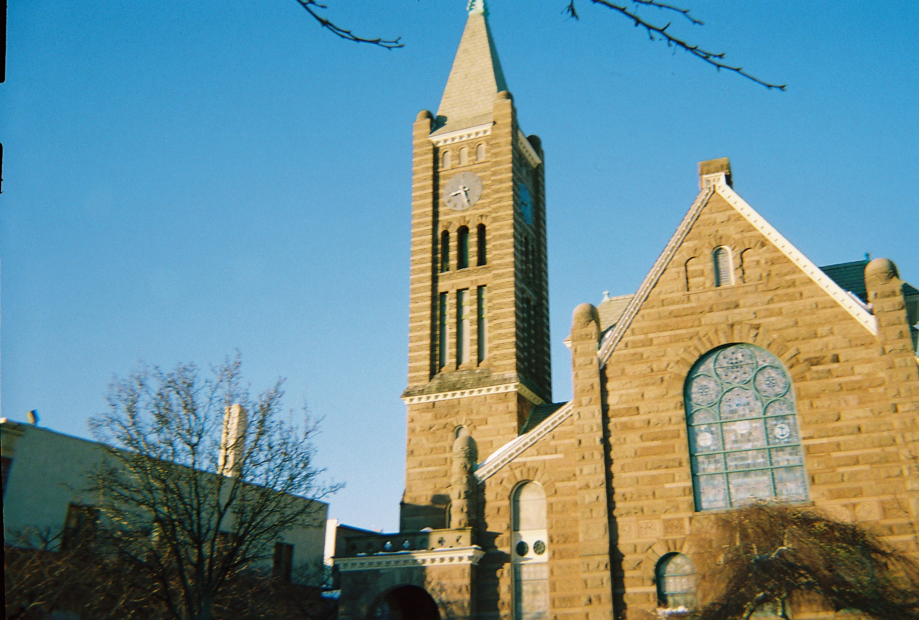 The clock tower of the historic Congregational Church of Patchogue on East Main Street in Patchogue, New York. I was told by a member of that church that the clock doesn't always have the right time. I was also told that I could use an image from the church's website, but I know Wikipedia wouldn't allow that.